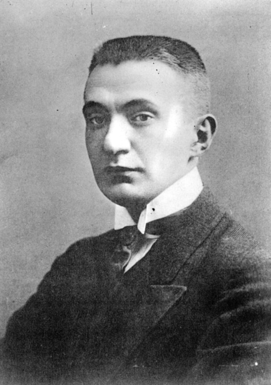 Alexander Kerensky, socialrevolutionay politician, minister and last PM of the Russian Provisional Government.